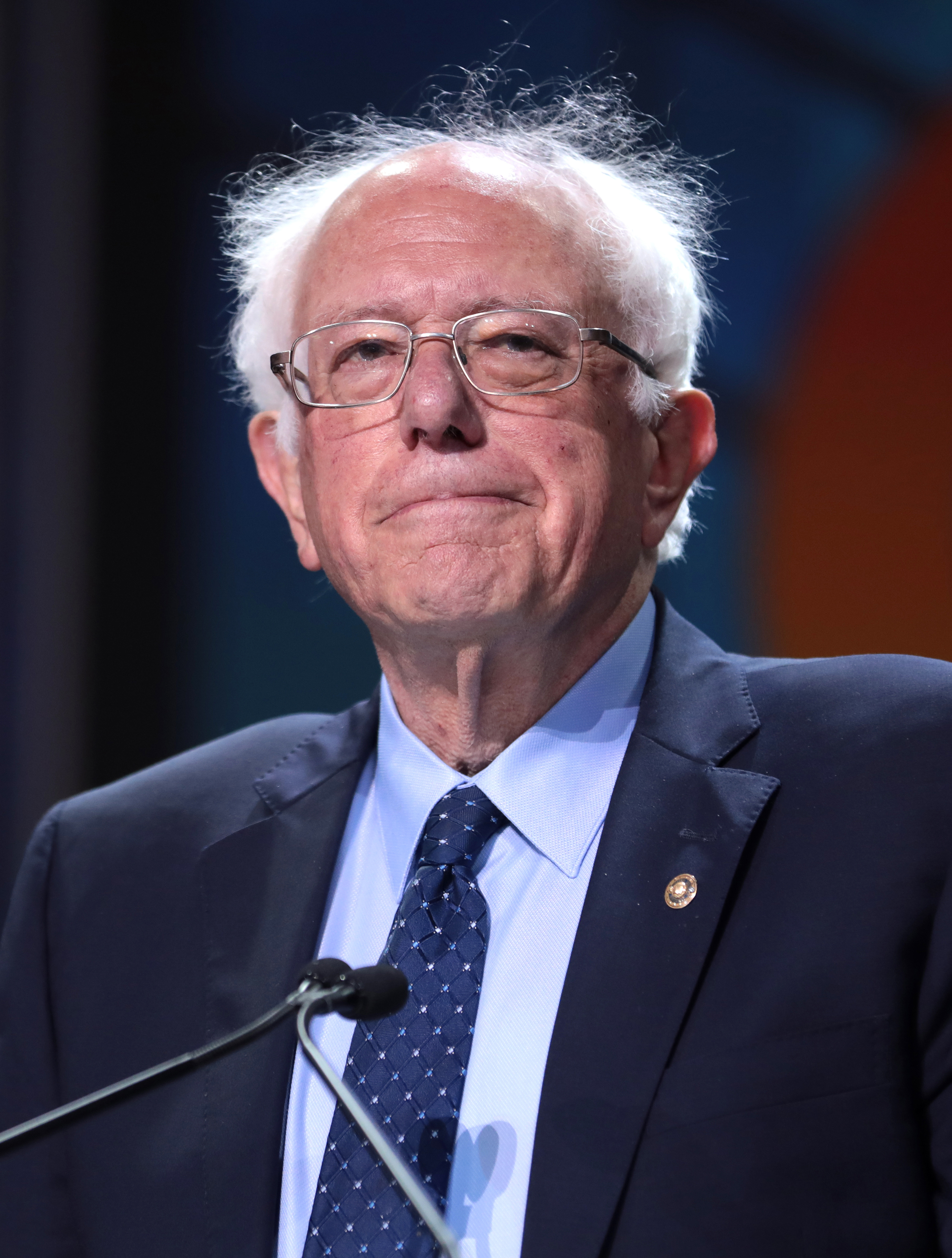 Bernie Sanders speaking at the 2019 California Democratic Party State Convention in San Francisco, California.